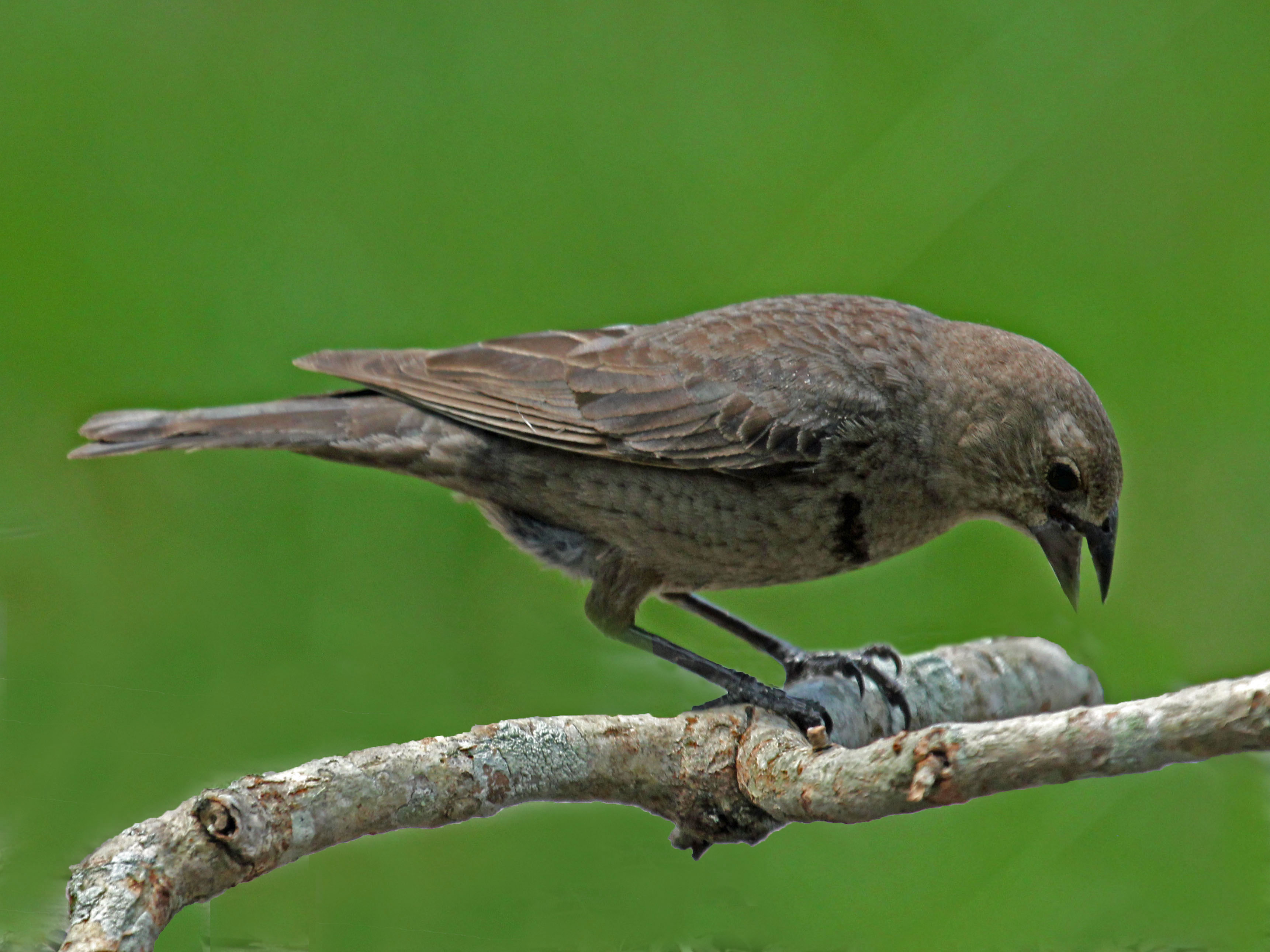 Female Brown-headed Cowbird (Molothrus ater) - Ash, North Carolina